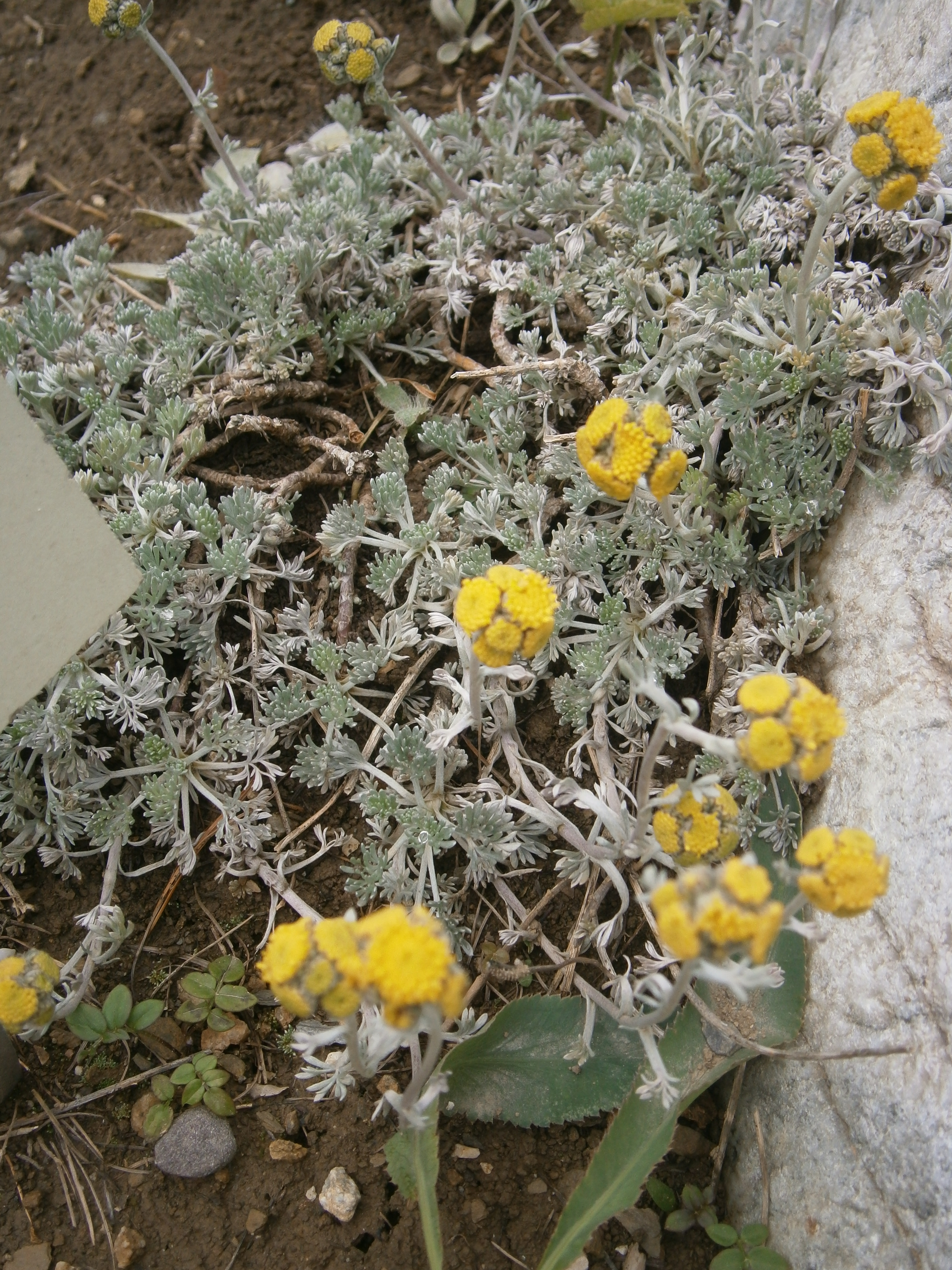 Artemisia glacialis in the Jardin Botanique Alpin du Lautaret